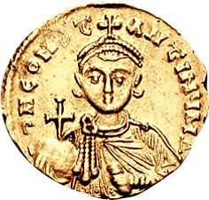 Constantine V, AV Solidus. c737-741 AD. Constantinople mint. d N CONST-ANTINUM, crowned facing bust of Constantine, holding globus cruciger & akakia.